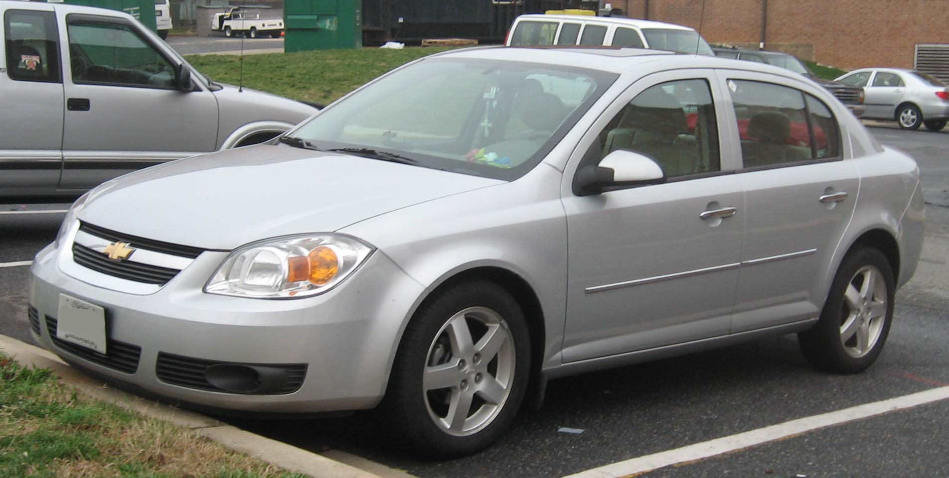 Chevrolet Cobalt photographed in College Park, Maryland, USA.